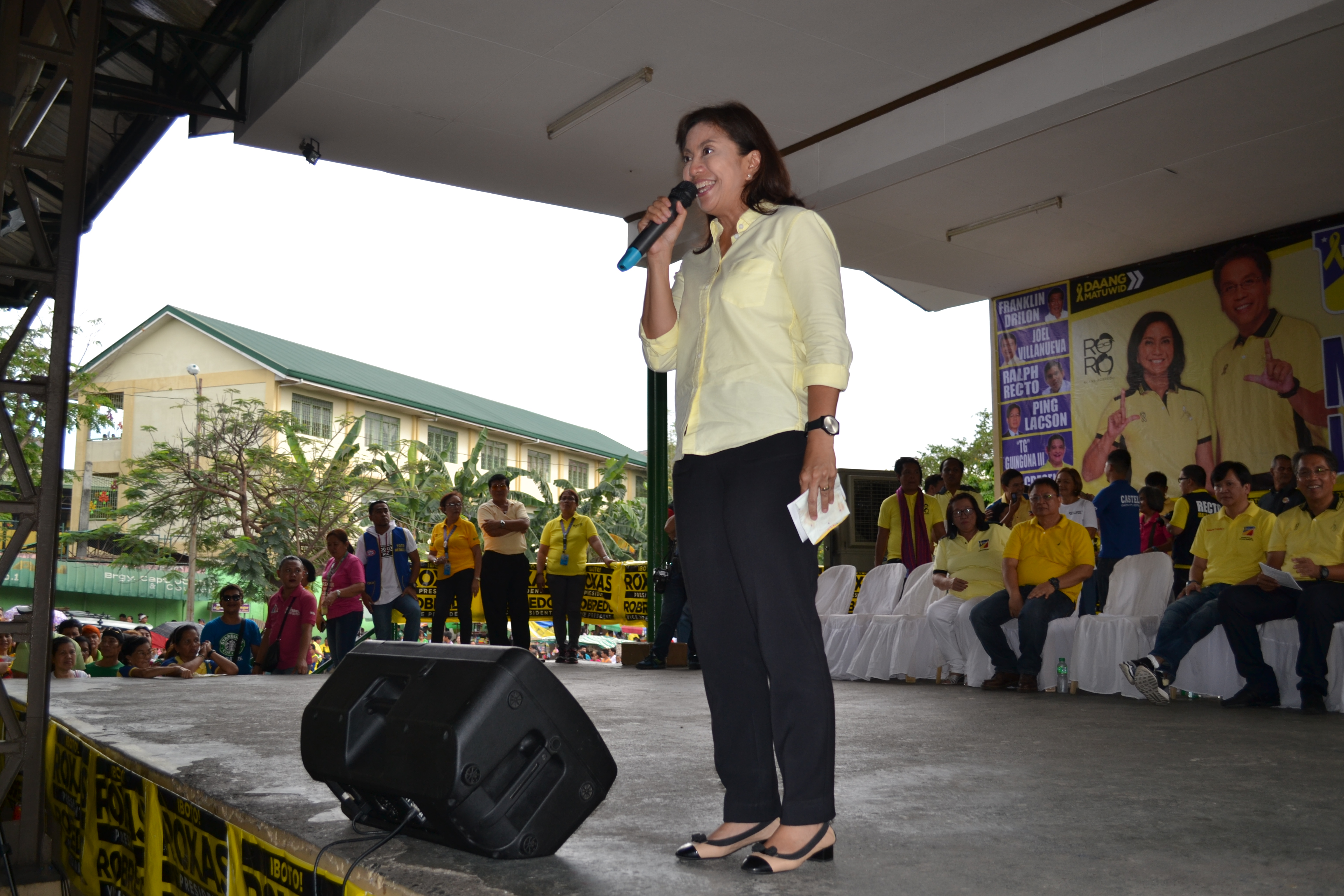 Leni Robredo, the 2016 Vice Presidential Candidate of the Liberal Party delivered her speech in front of barangay officials in a LP campaign rally in Brgy. Commonwealth, Quezon City on February 17, 2016.